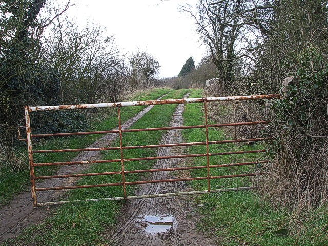 Track next to dismantled railway, Radclive. Near the site of Radclive Halt station, Buckinghamshire